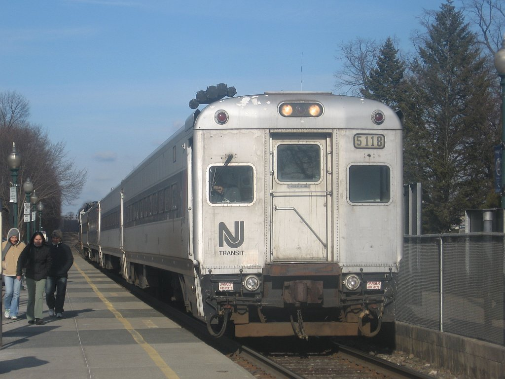 NJ Transit Comet I car 5118 at Ridgewood Station